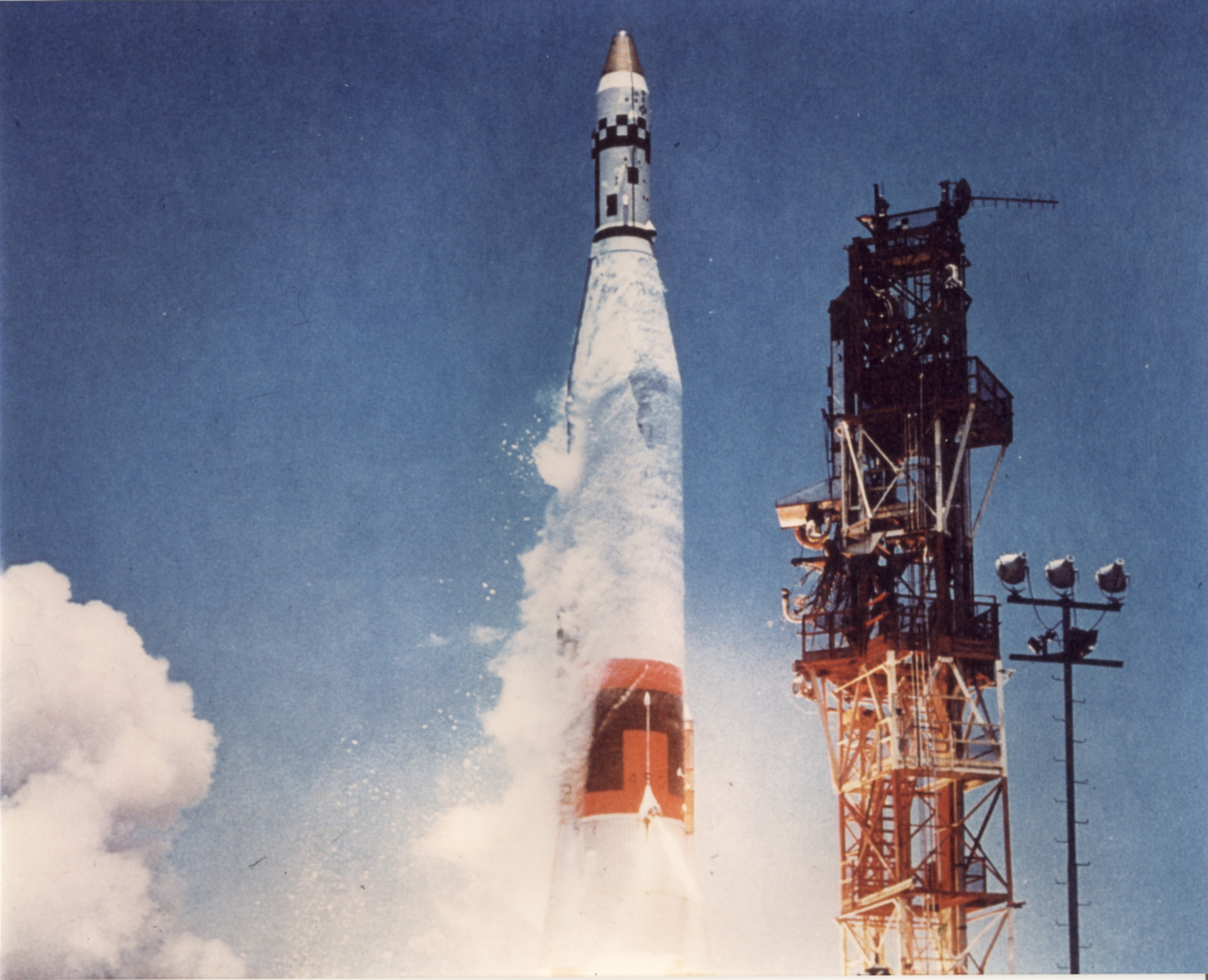 SAMOS launch by an Atlas booster